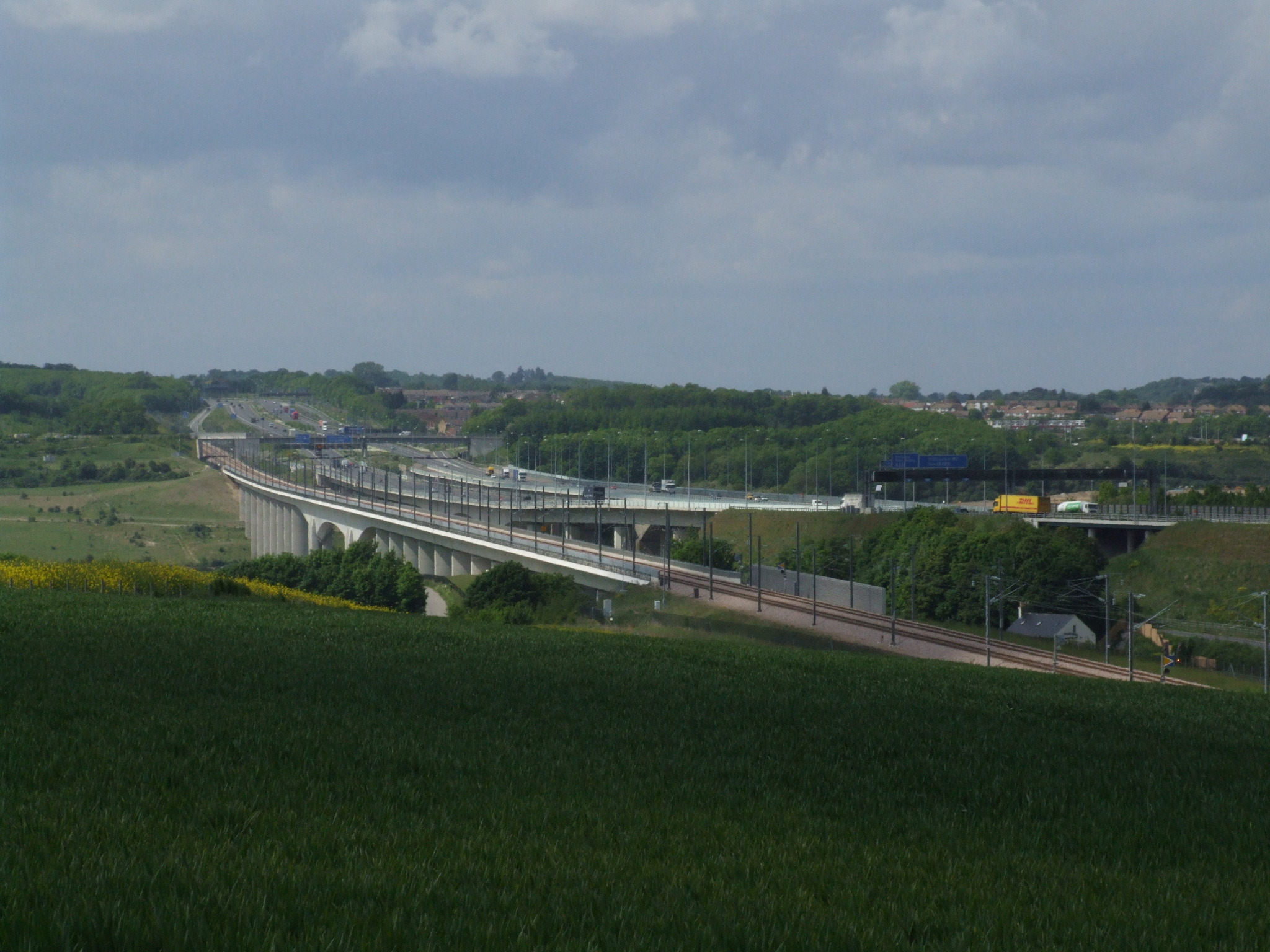 The Medway viaducts, Kent, England in May 2008. They consist of three bridges that cross the River Medway from south east to north west. One carries a footpath/cycle way and the east bound carriage of the M2 motorway, the second carries the west bound carriageway and the third carries the Channel Tunnel Rail Link (HS1). A view from the side of the Nashenden Valley, on the North Downs Way. We see all three bridges, and the motoway exit onto the A228.